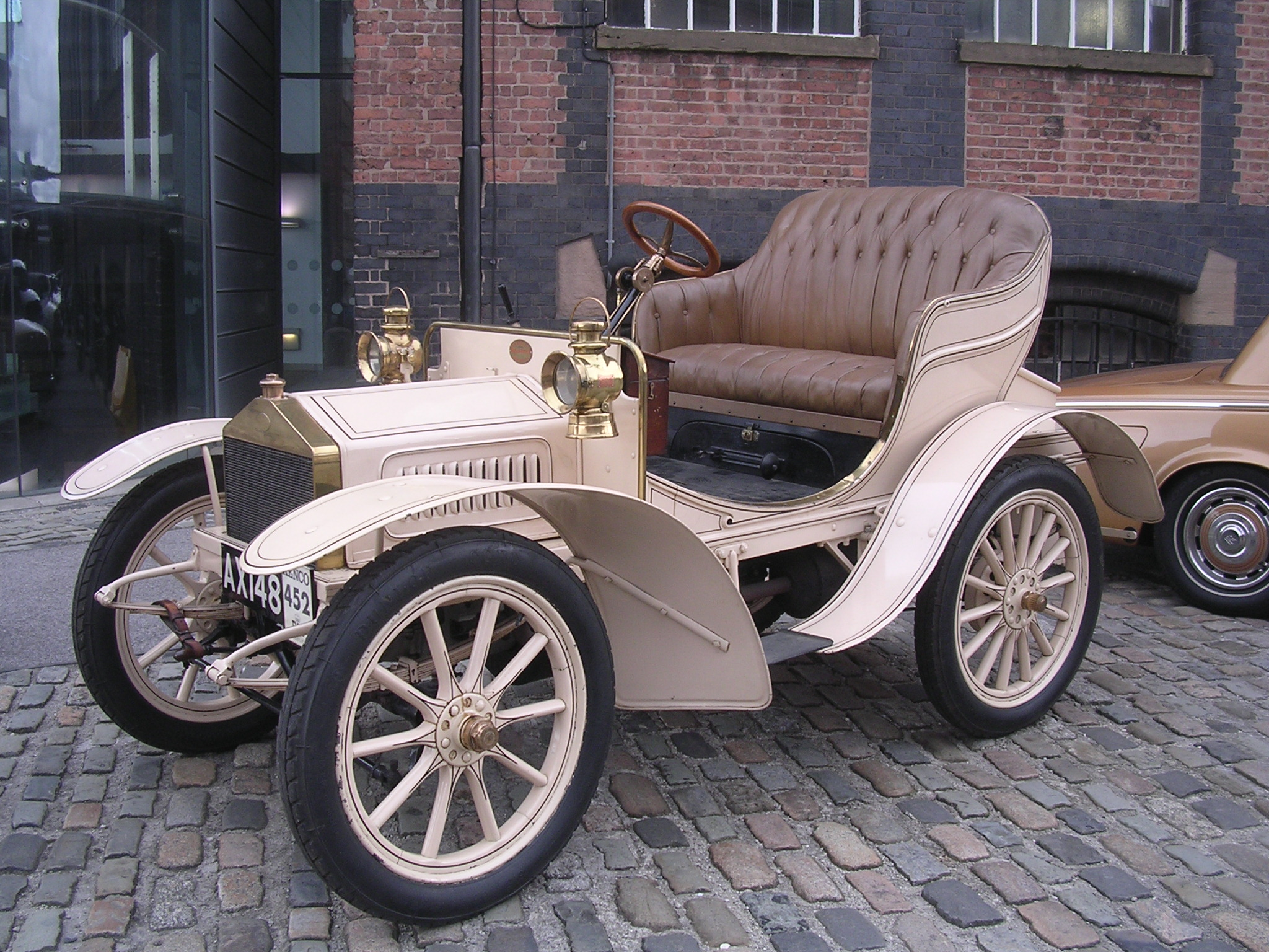 A 1905 model Rolls Royce, as featured in the Museum of Science and Industry in Manchester. This car, registration AX148, was built in the original Manchester factory, and is the oldest such vehicle on public display.